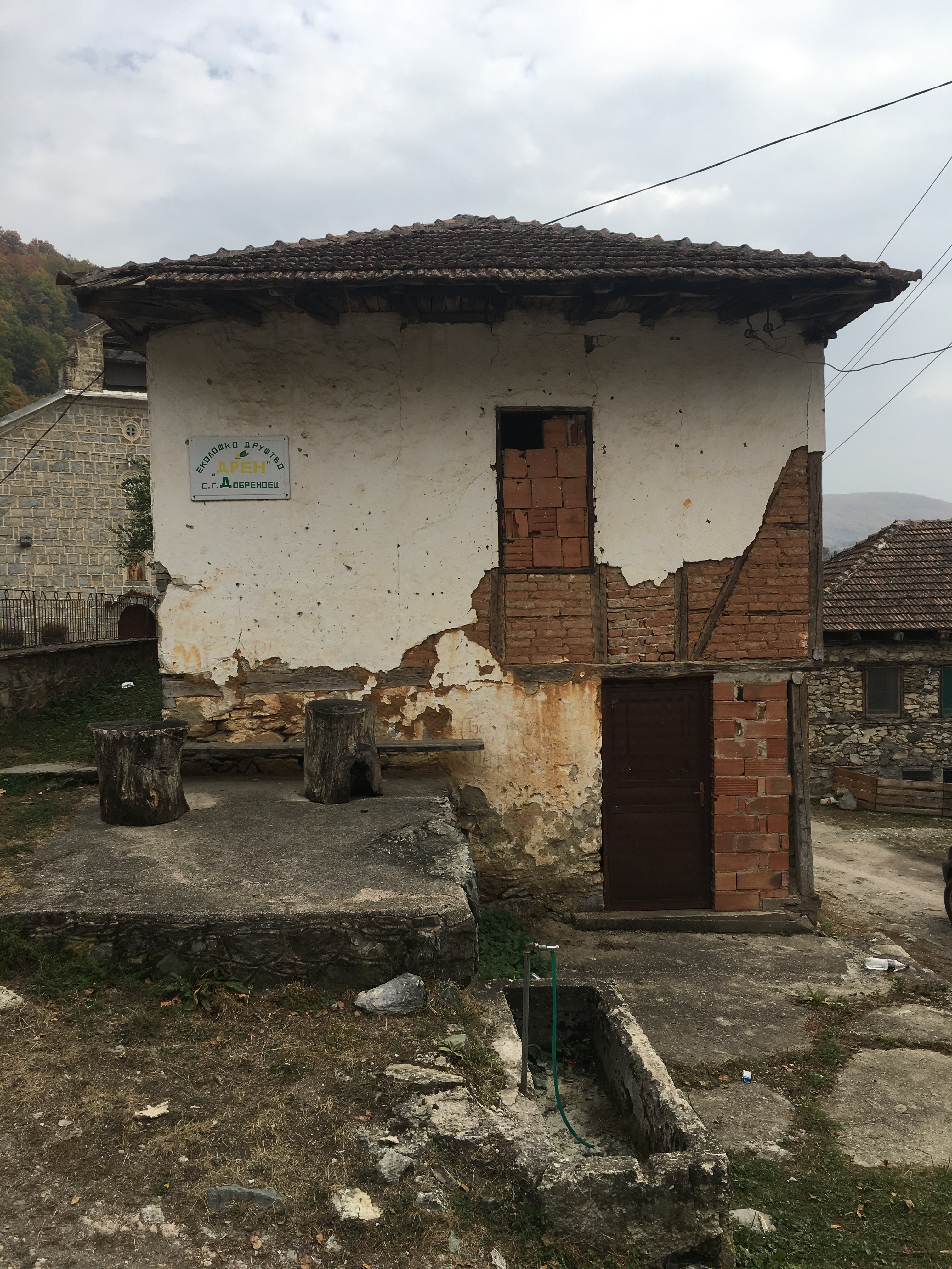 Wikiexpedition to Kopačka